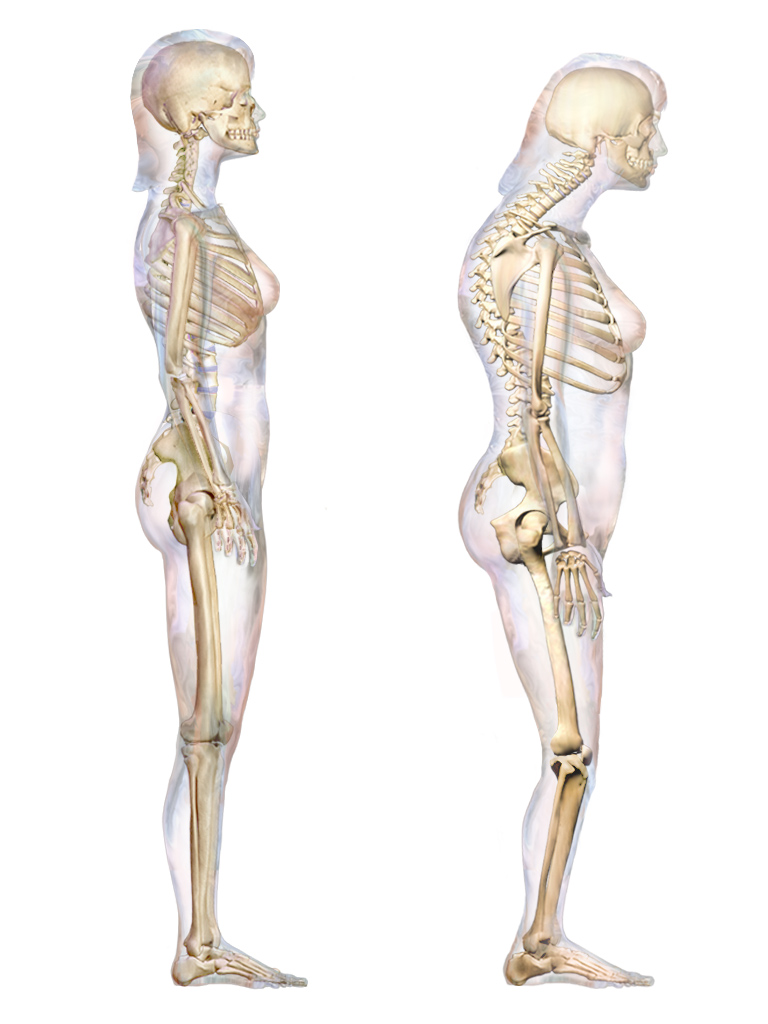 A medical illustration depicting degenerative kyphosis.